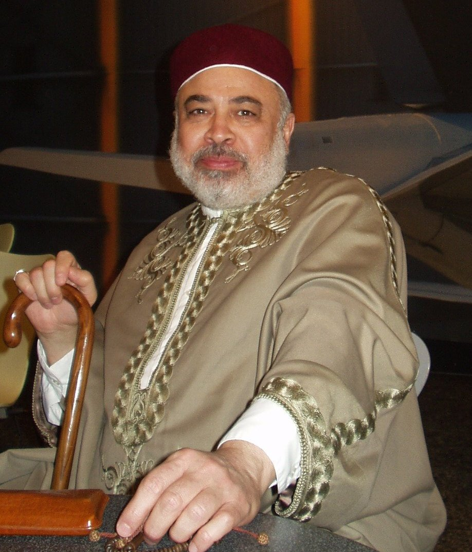 Libyan Constitutional Union Chairman Mohamed Ben Ghalbon